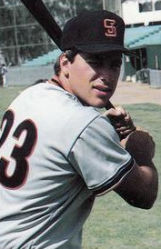 Professional baseball player Mark Leonard